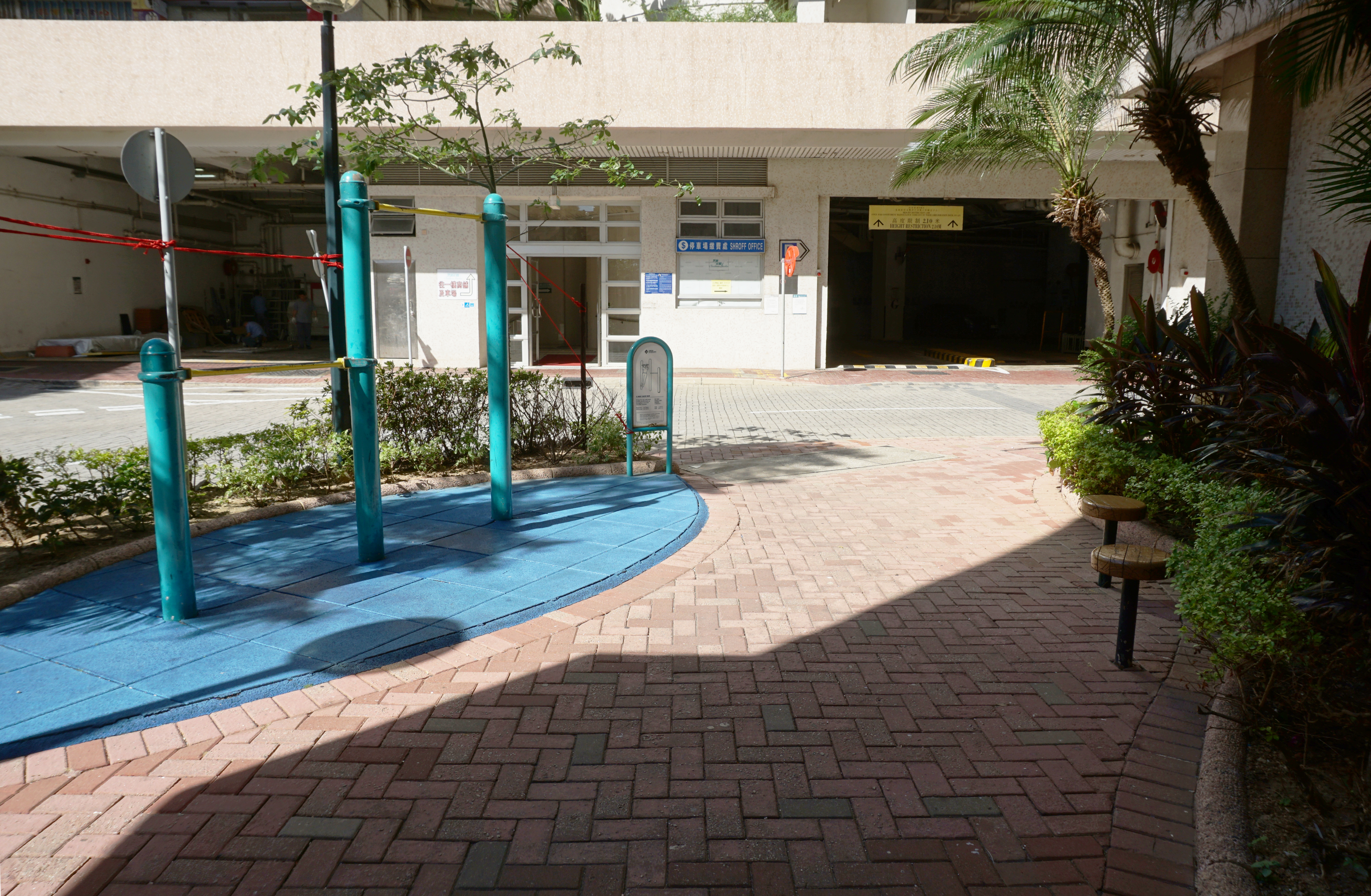 Bauhinia Garden in Tseung Kwan O, Hong Kong.